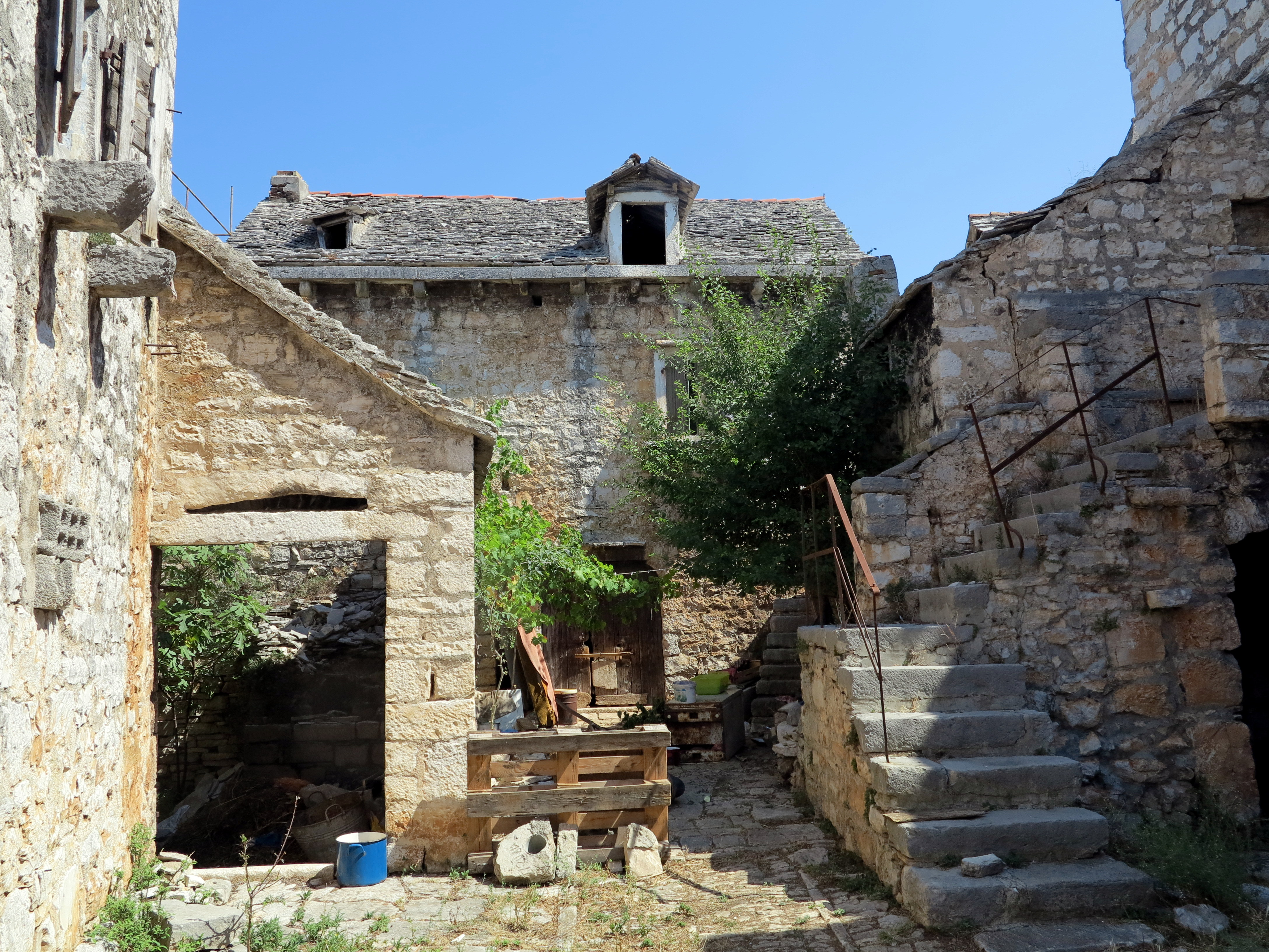 FOld limestone houses, some still covered with stones in Grohote on the island Šolta / Croatia / Adriatic Sea.